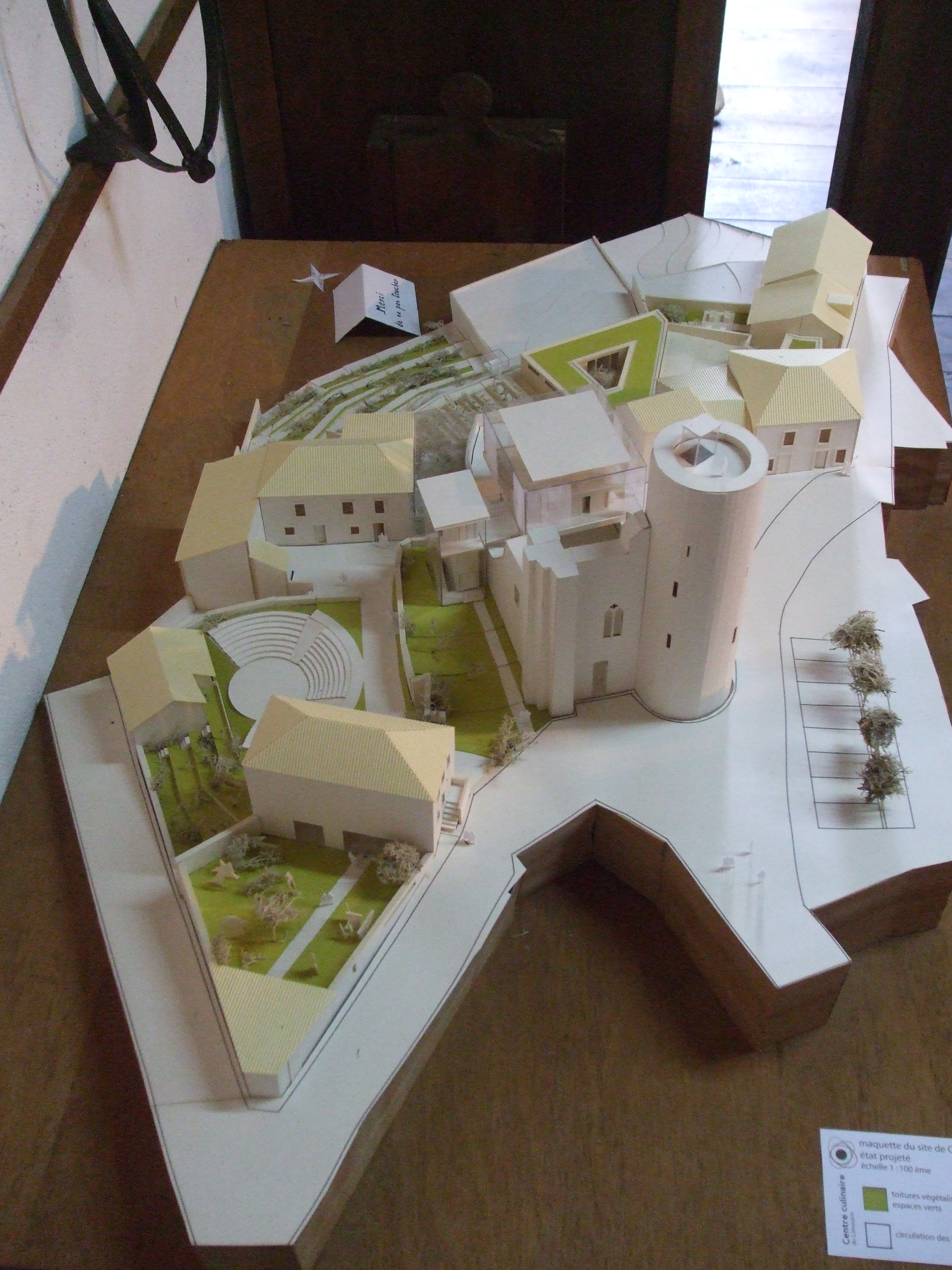 Project of reconstruction of Châlus Maulmont and culinary city of Limousin.